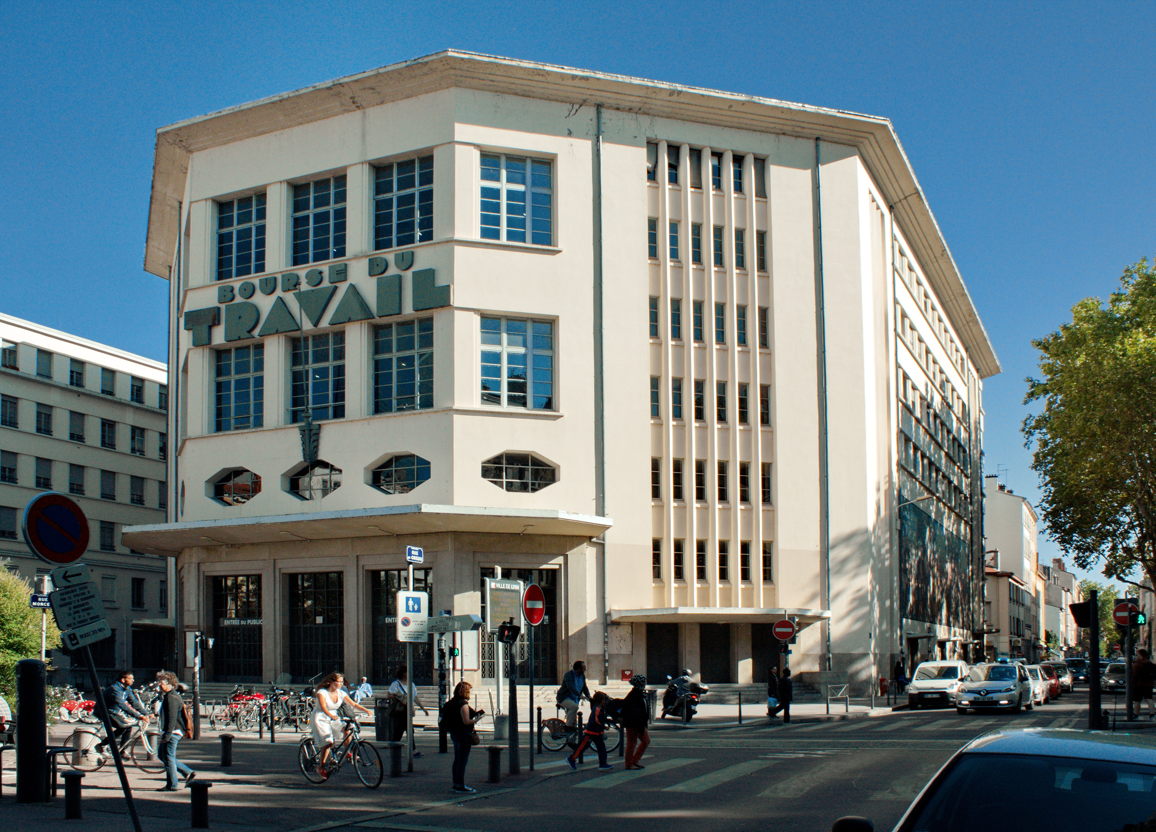 Bourse du travail, Lyon, France, 2015. 205 place Guichard, 69003, Lyon, France. Built: 1936. Architect: Charles Meysson, municipal architect.